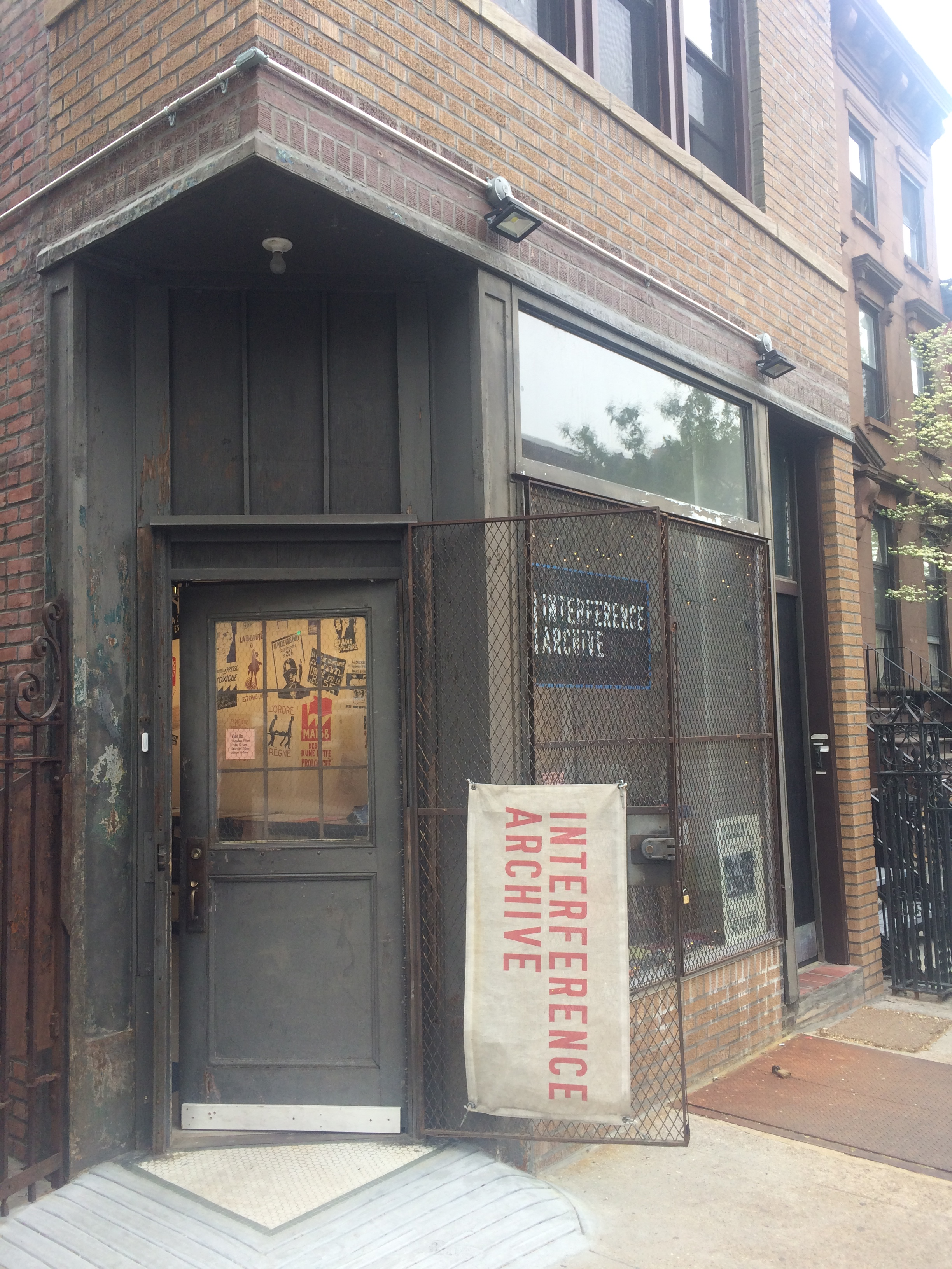 Photograph of the exterior of the Interference Archive